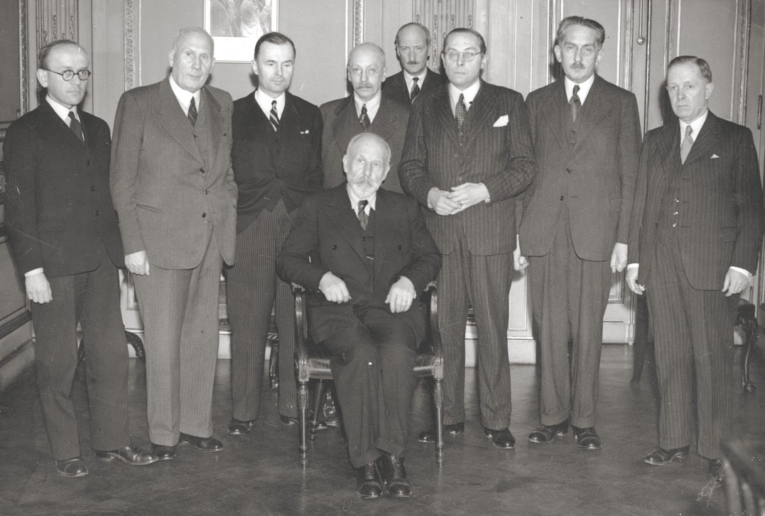 Polish Goverment in Exile 1944 (Prime Minister Tomasz Arciszewski)